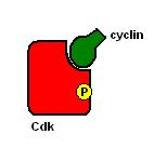 Cyclin-Cdk complex.